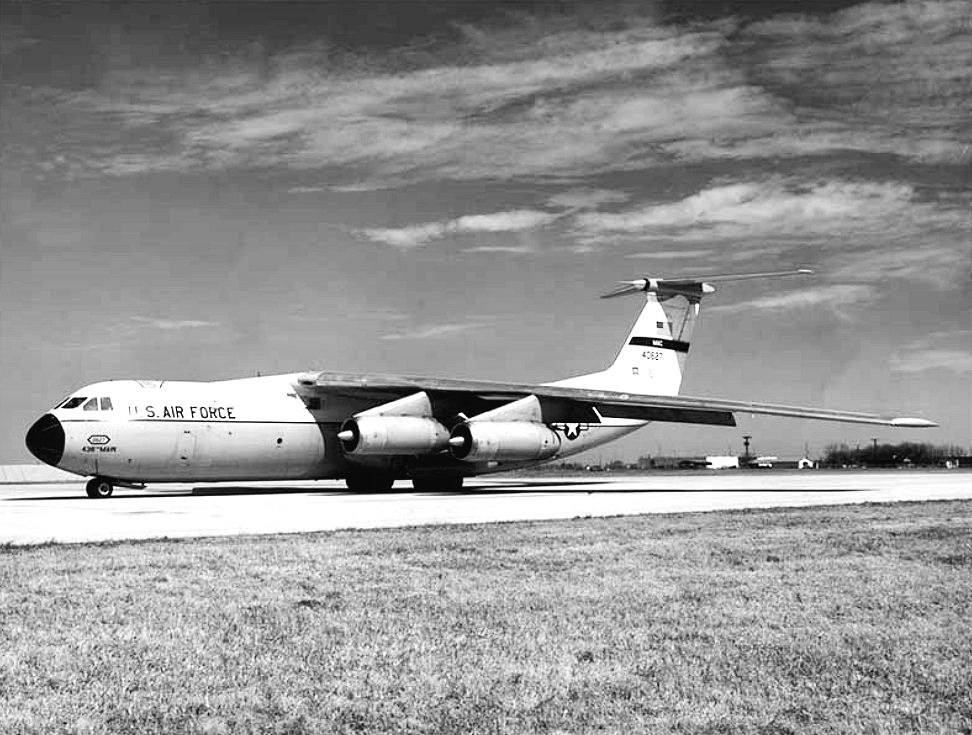 USAF C-141 Starlifter 64-0627, 438th Military Airlift Wing, 1973